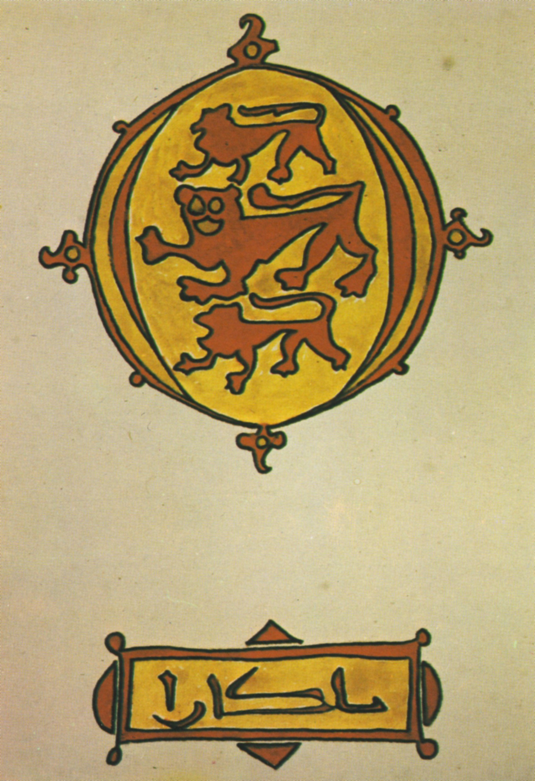 Coat of Arms of the Second Bulgarian Empire during the reign of the Tsar Ivan Shishman (1371-1395), depicted by an anonymous Arab traveller, who visited the capital of the Second Bulgarian Empire Tarnovo in the second half of the 14th century. Source: "History of Bulgaria", volume 4 The Bulgarian people under Ottoman rule (from XV to the beginning of the XVIII century), Publishing house of the Bulgarian Academy of Sciences, Sofia, 1983, page 58 (in Bulgarian: "История на България", том четвърти Българският народ под османско владичество (от XV до началото на XVIII в.), Издателство на българската академия на науките, София, 1983, стр. 58.) Now in the King's Archive of Morocco.